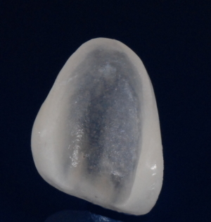 Porcelain Veneer